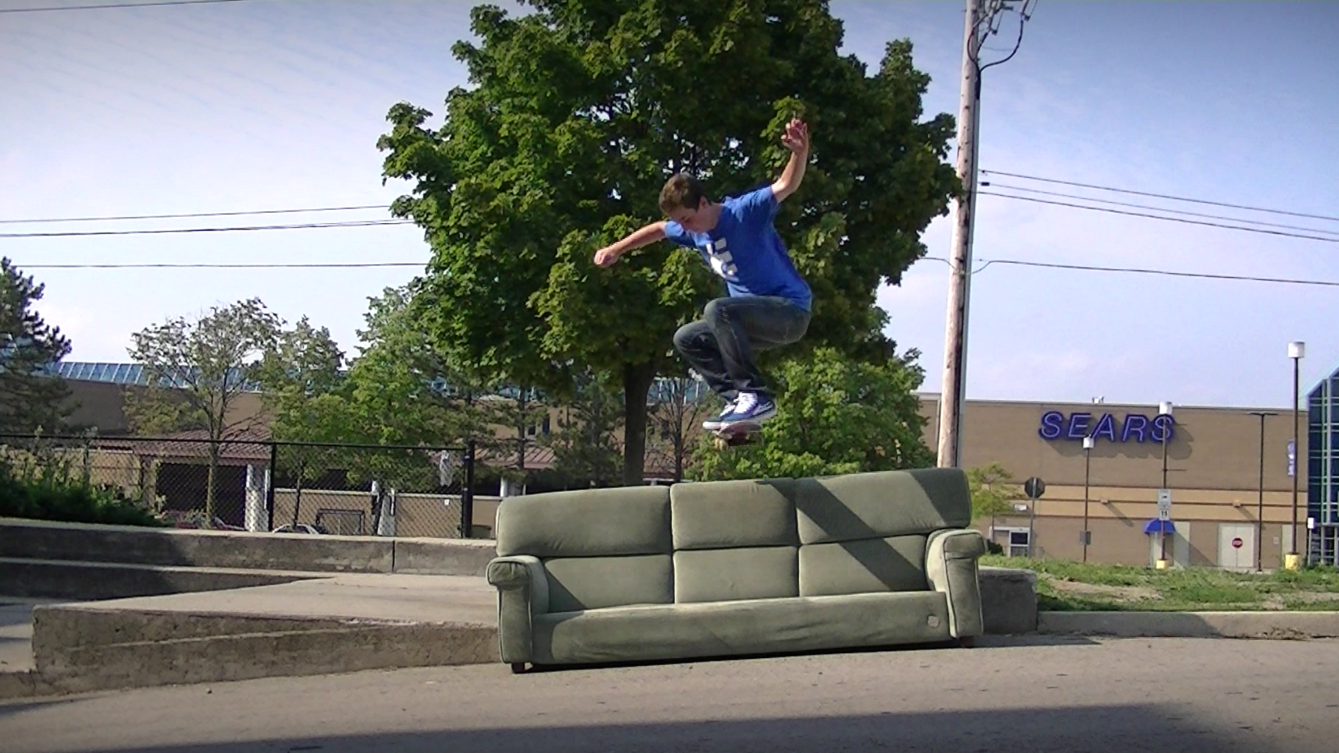 ollie couch